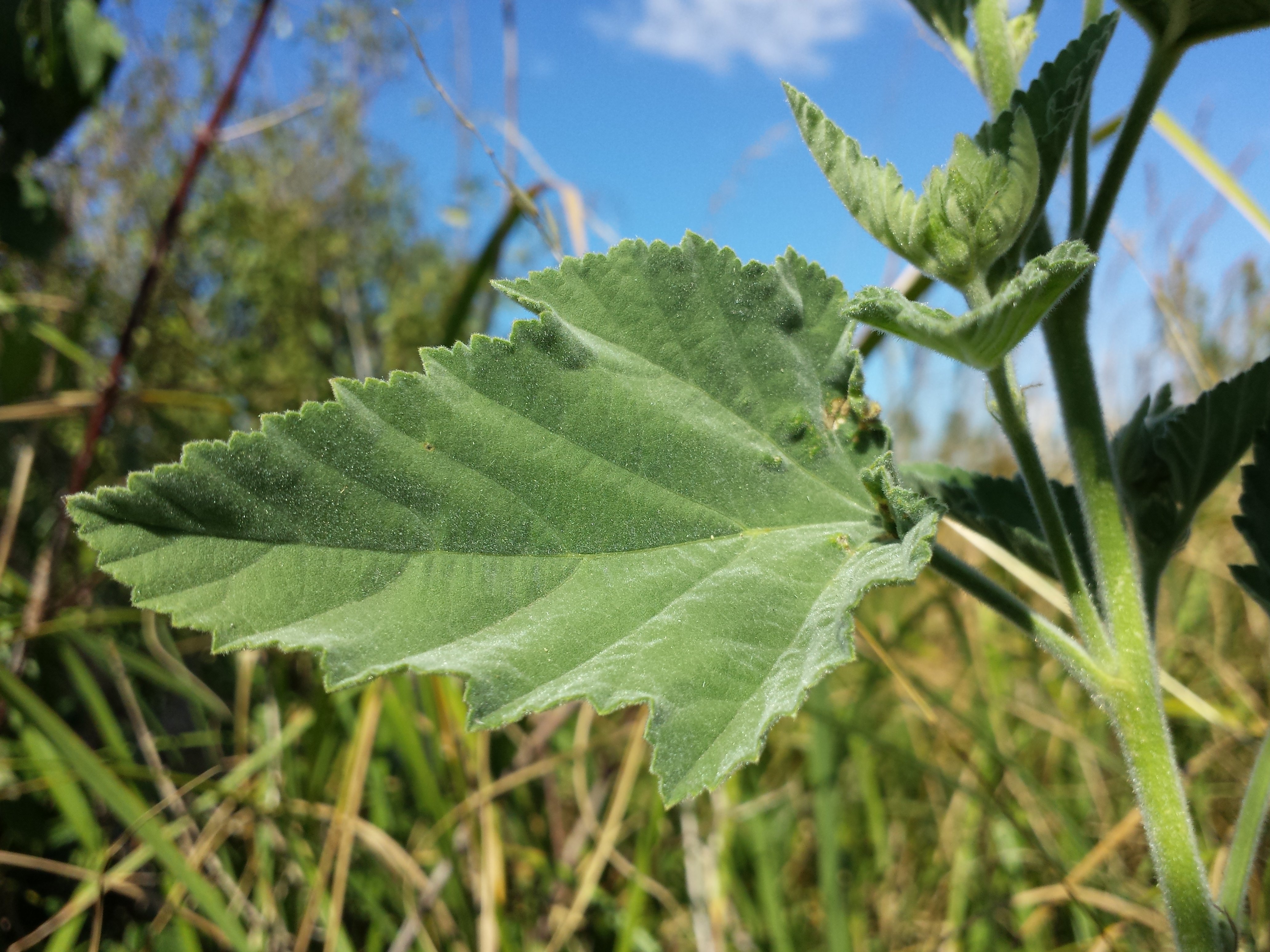 Leaf Taxonym: Althaea officinalis ss Fischer et al. EfÖLS 2008 ISBN 978-3-85474-187-9 Location: nature reserve Zwingendorfer Glaubersalzböden - Hintausacker, district Mistelbach, Lower Austria - ca. 185 m a.s.l. Habitat: salt meadow